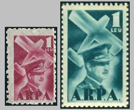 Stamps of ARPA Romania for aviation.